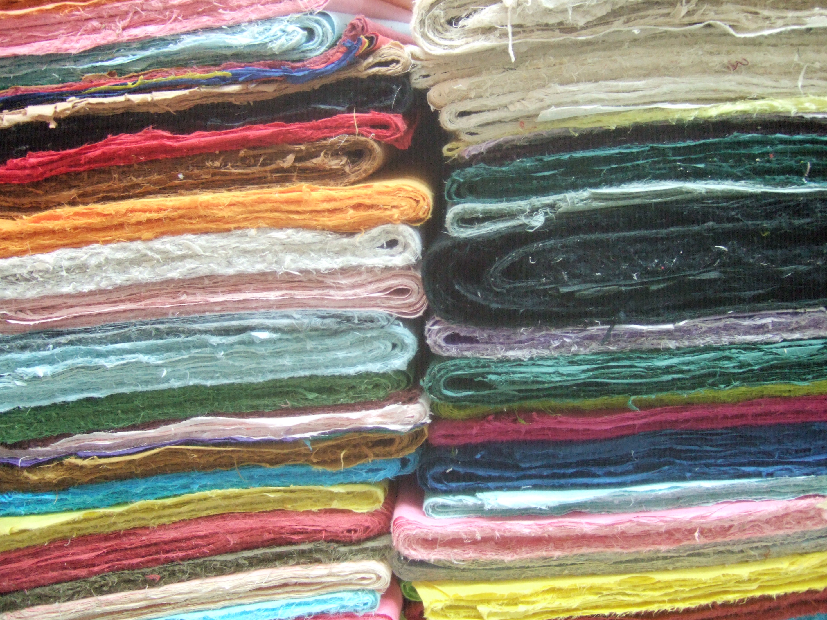 Hand pressed papers in Insadong, Seoul, Korea